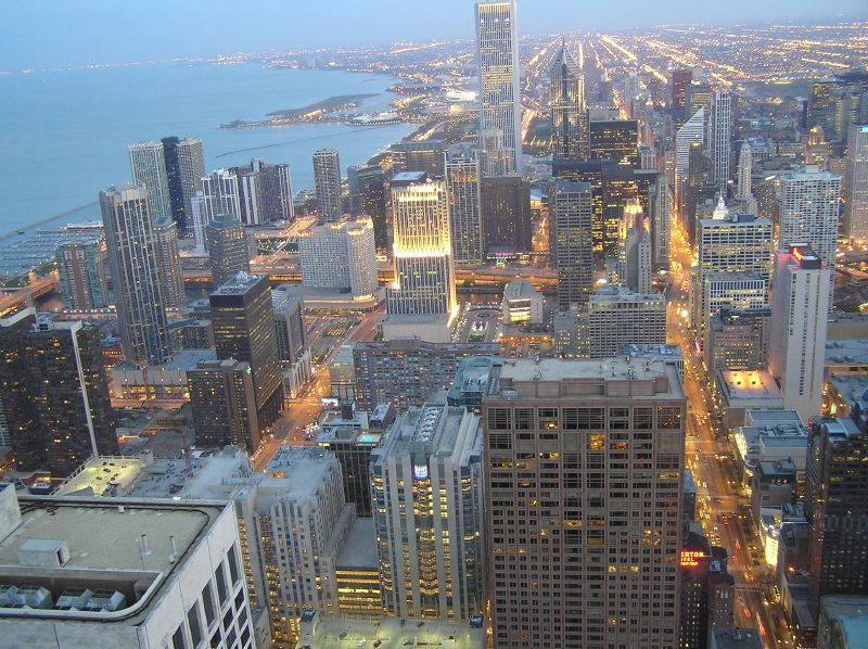 Chicago